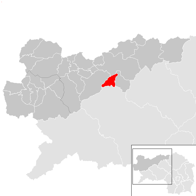 District Leoben